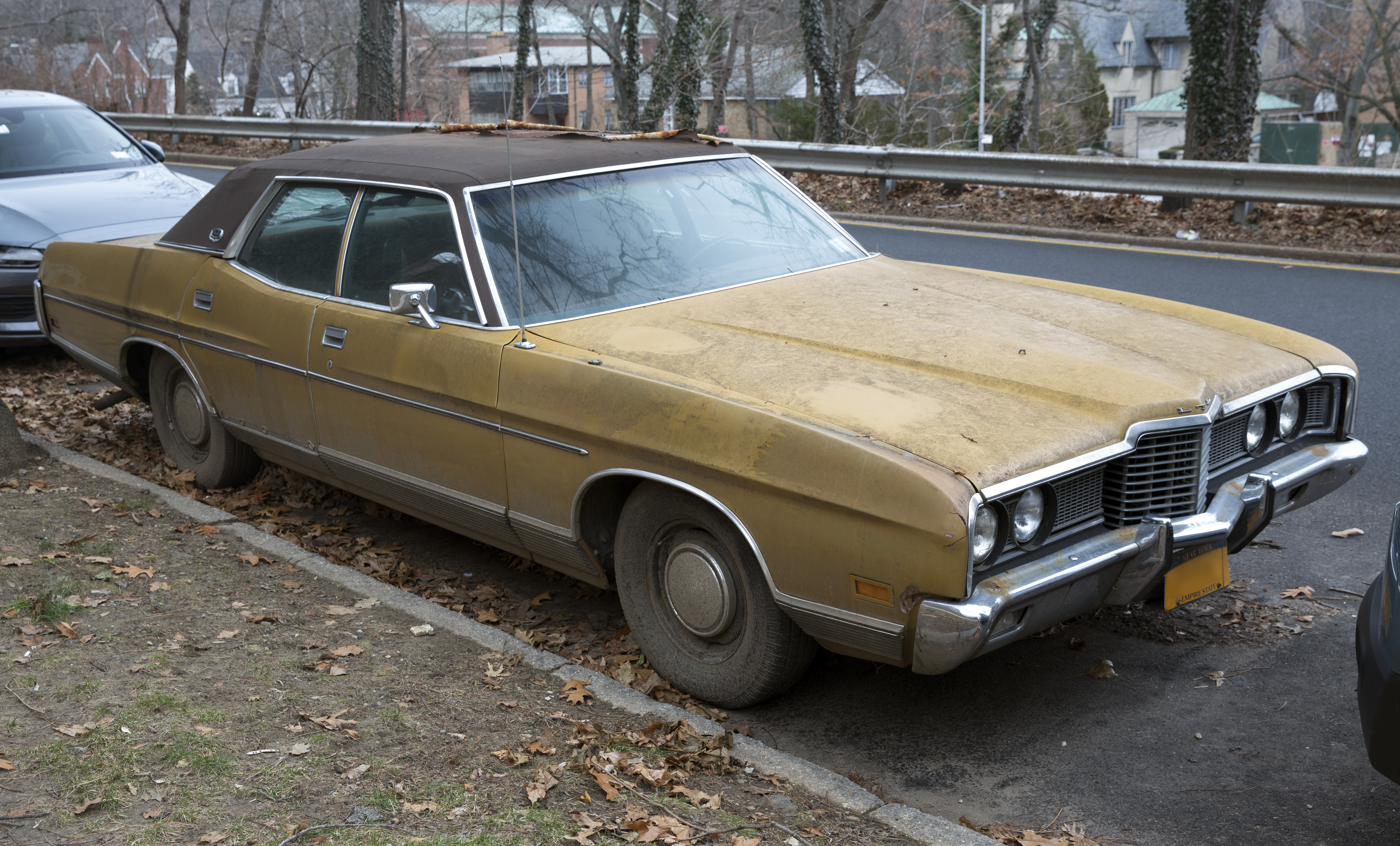 A 1972 Ford LTD Brougham four-door hardtop sedan, built in Kansas City and equipped with the 400ci V8. Not the best condition but pretty awesome nonetheless.